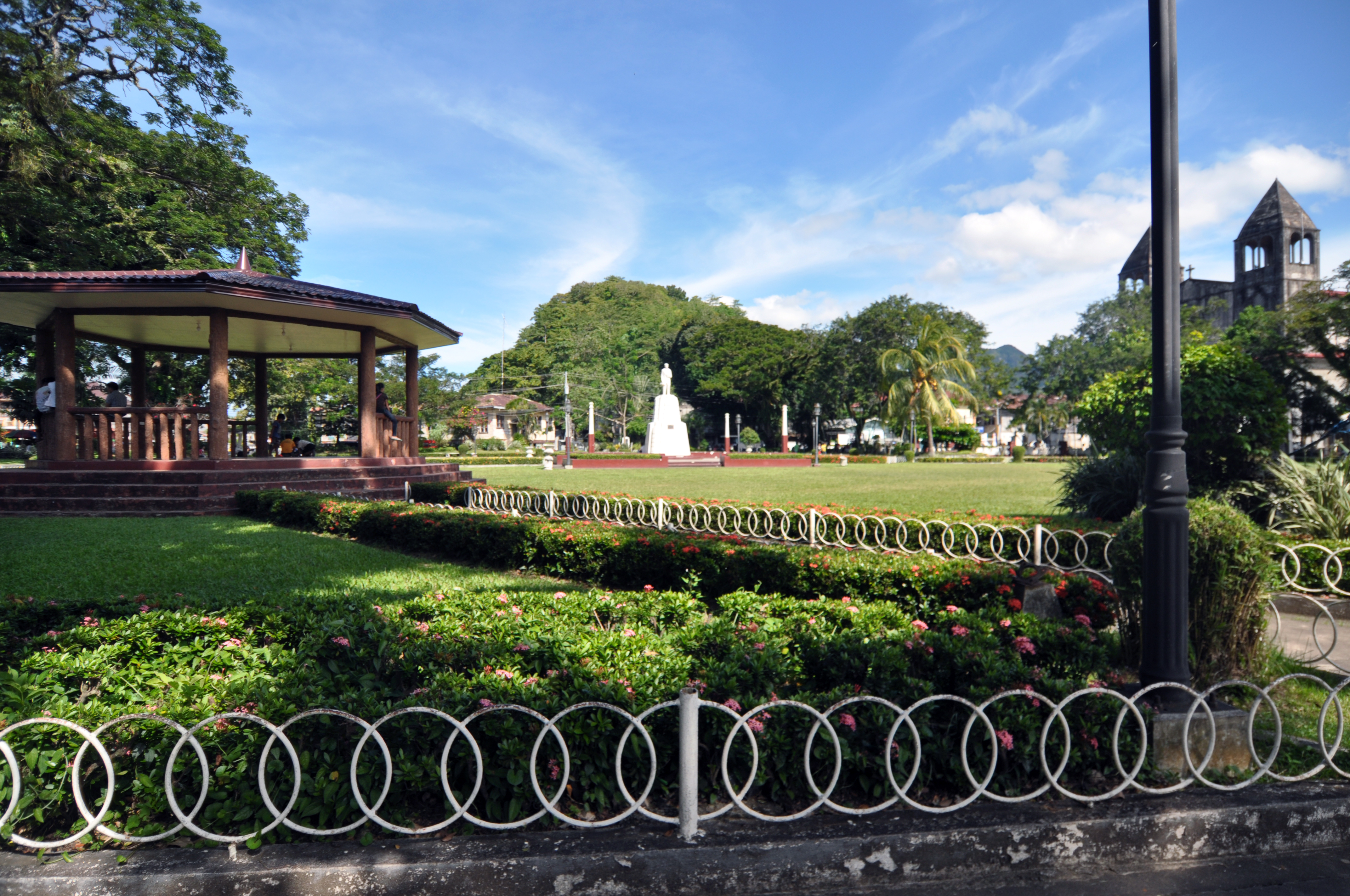 Liwasan ng Dapitan Park